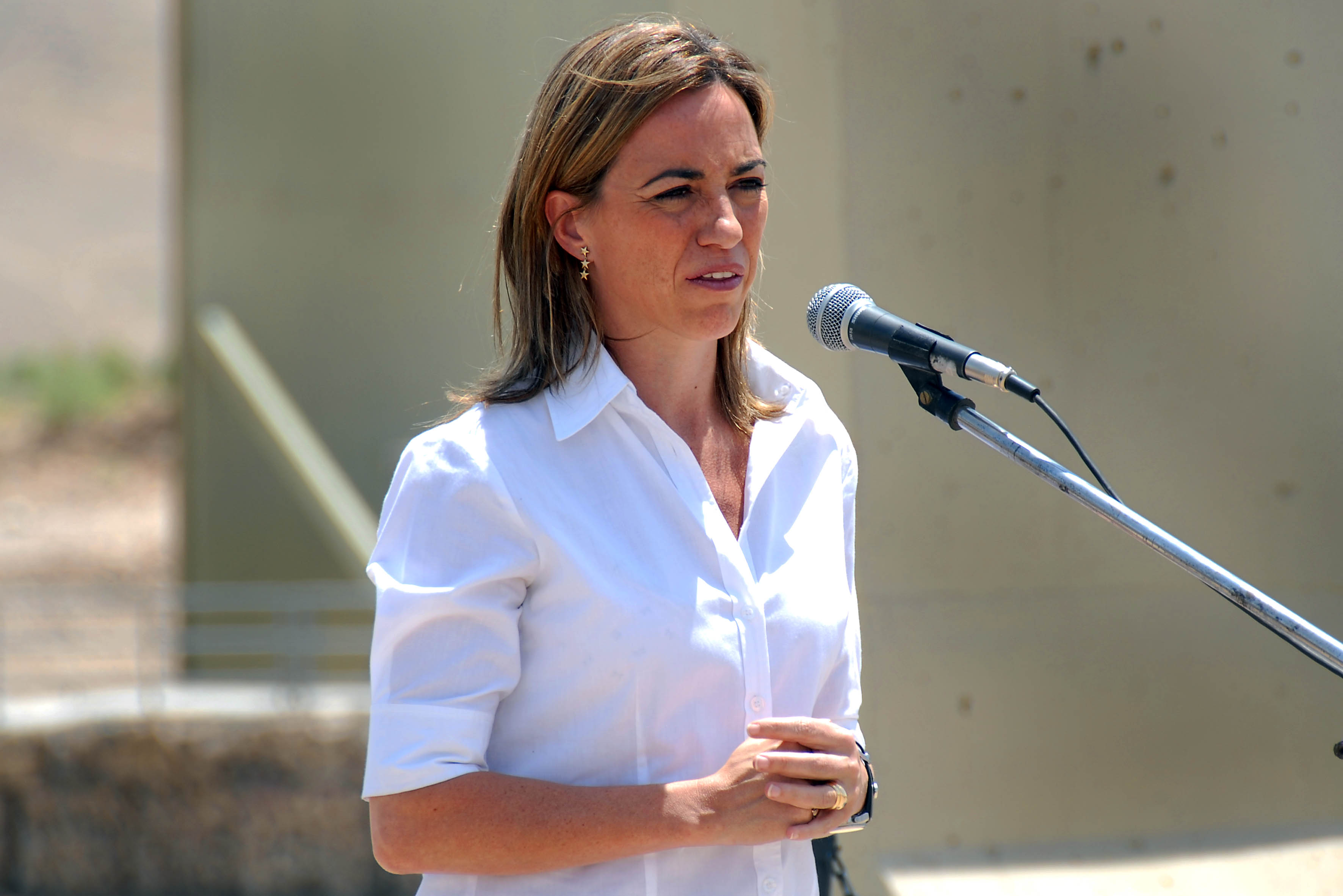 Qala-i-Naw, Afghanistan (July, 13th) Spanish Minister of Defense, Carme Chacón, visists the Spanish base in Qala i Naw and the Forward Operating Base in Sang-Atesh